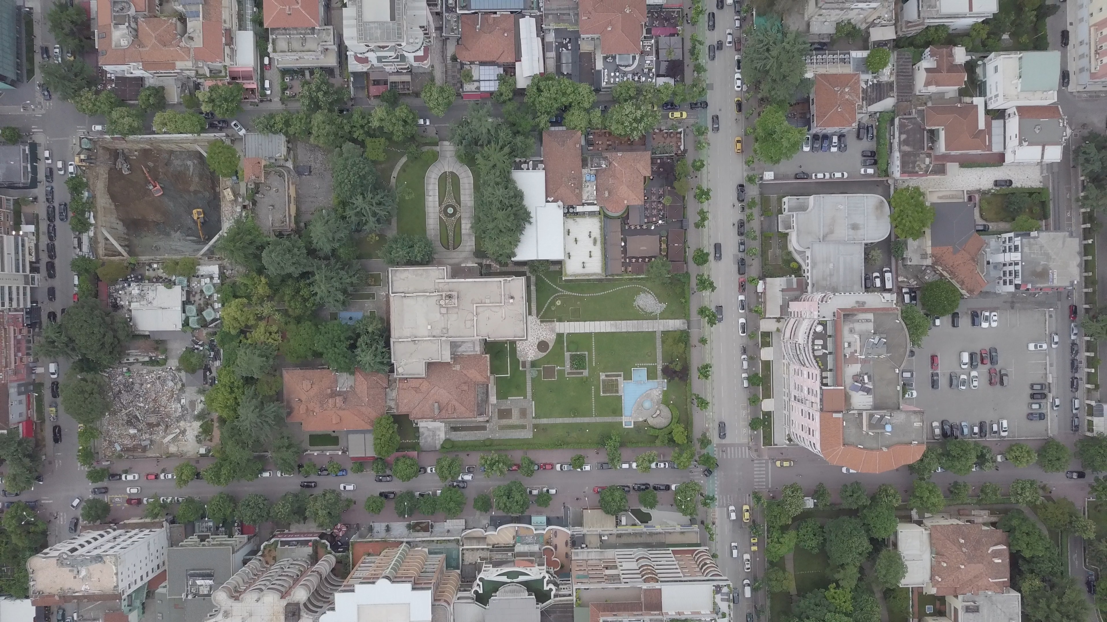 Former Enver Hoxha House territory seen from the drone.